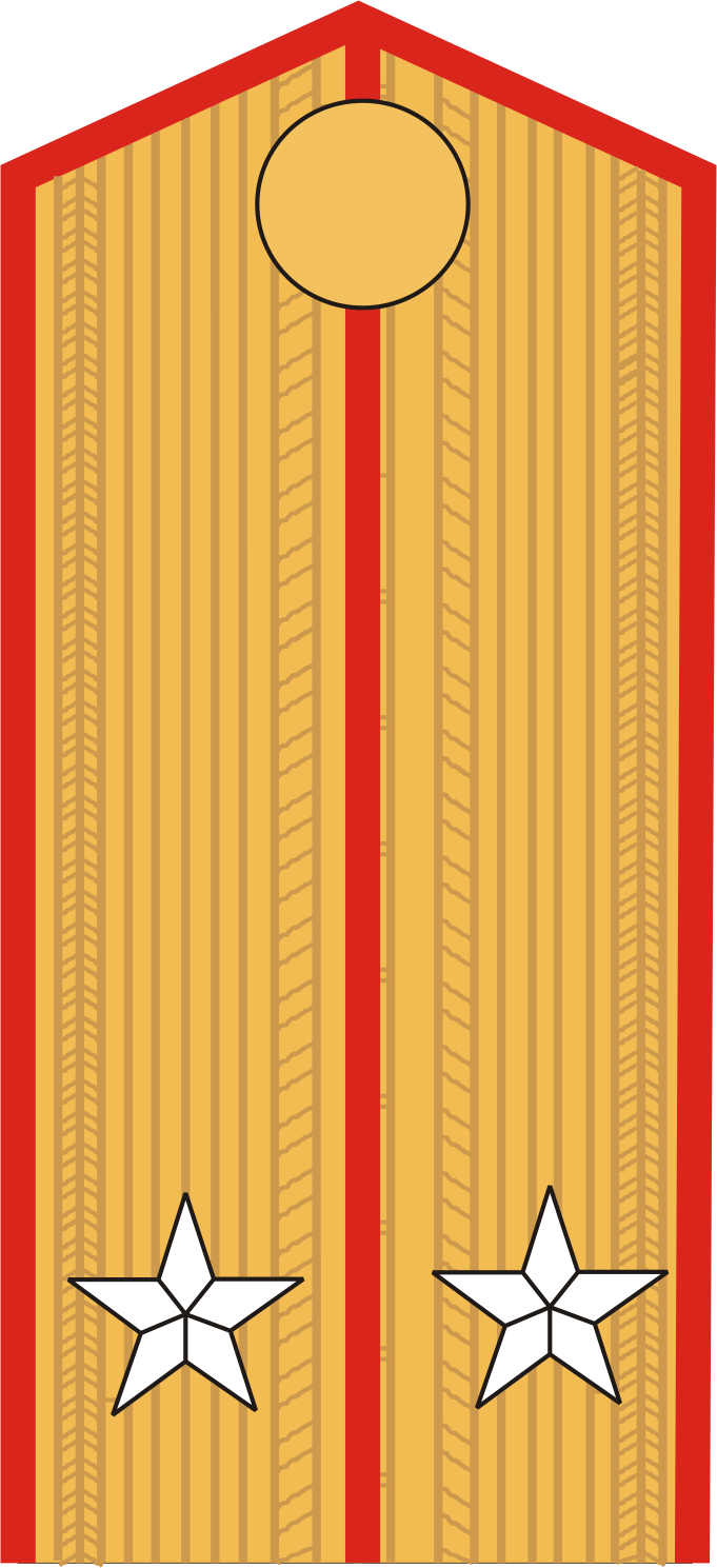 Russian rank insignia (1943-1945), here "Lieutenant" (OF1) – shoulder strap Army (infantry, motorized infantry) field uniform, color khaki.